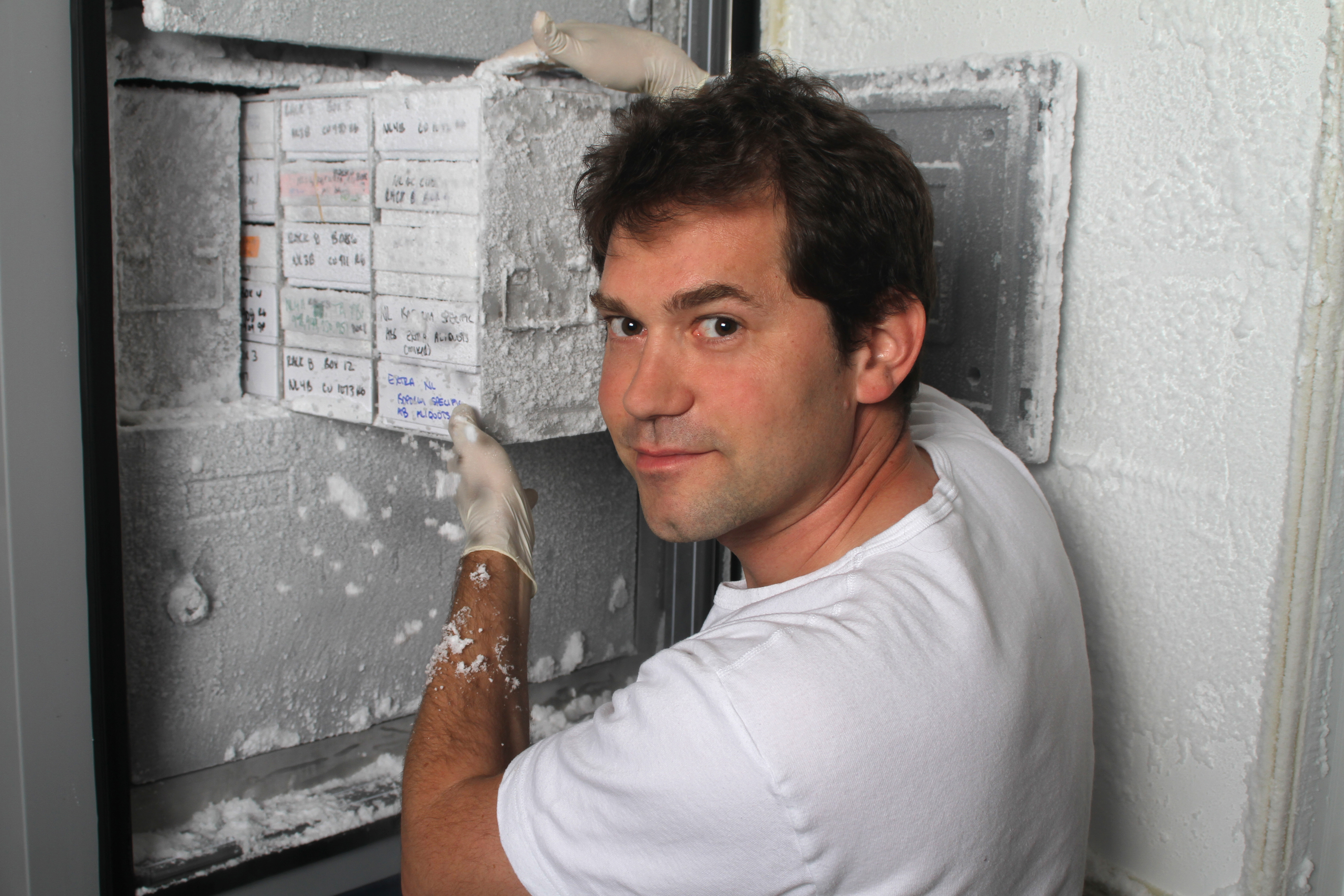 Professor Peter Scheiffele, Biozentrum University of Basel Switzerland